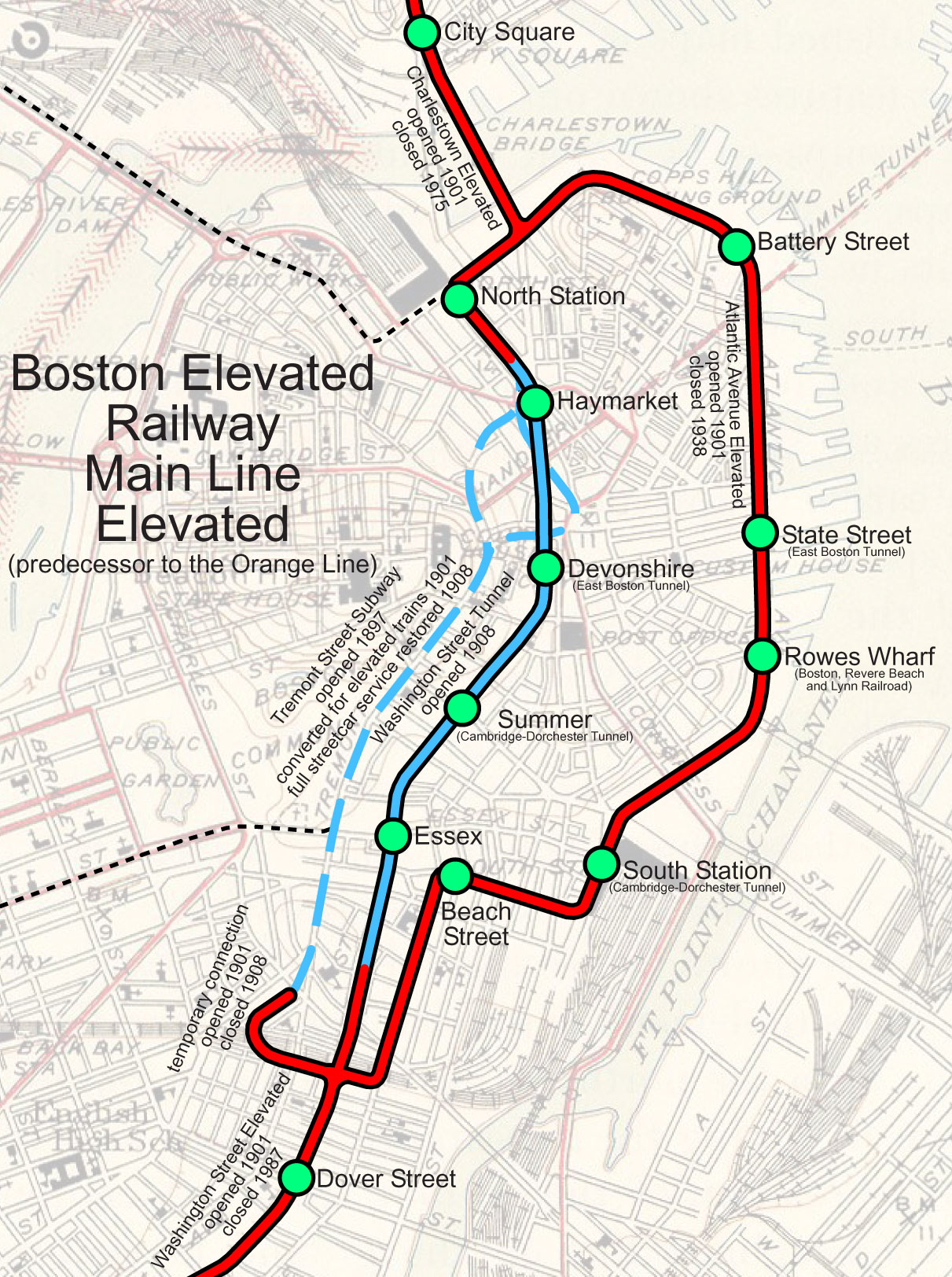 Main Line Elevated in Boston, on a 1946 public domain USGS topo from UNH